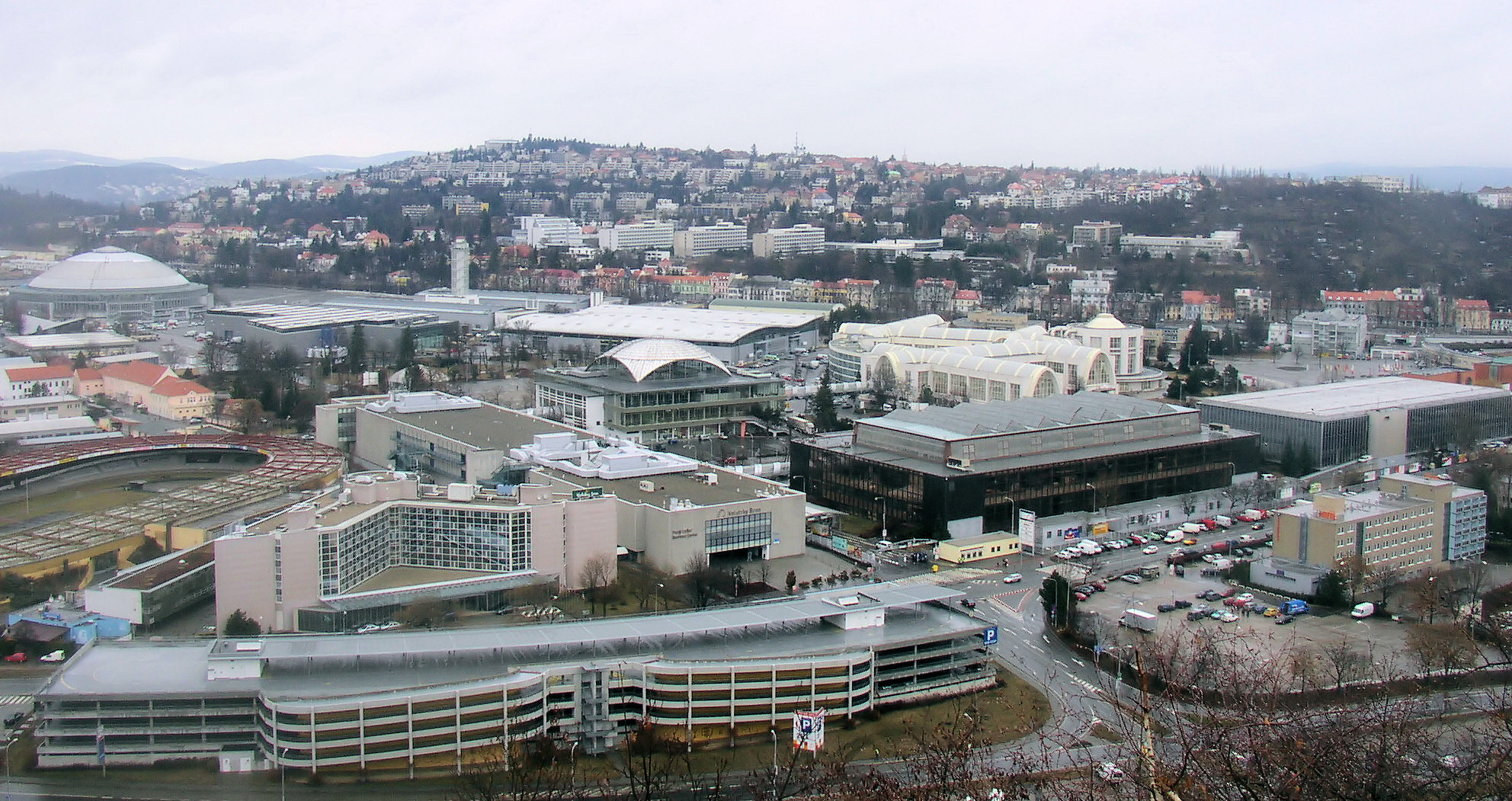 Brno Exhibition Grounds as seen from the south.